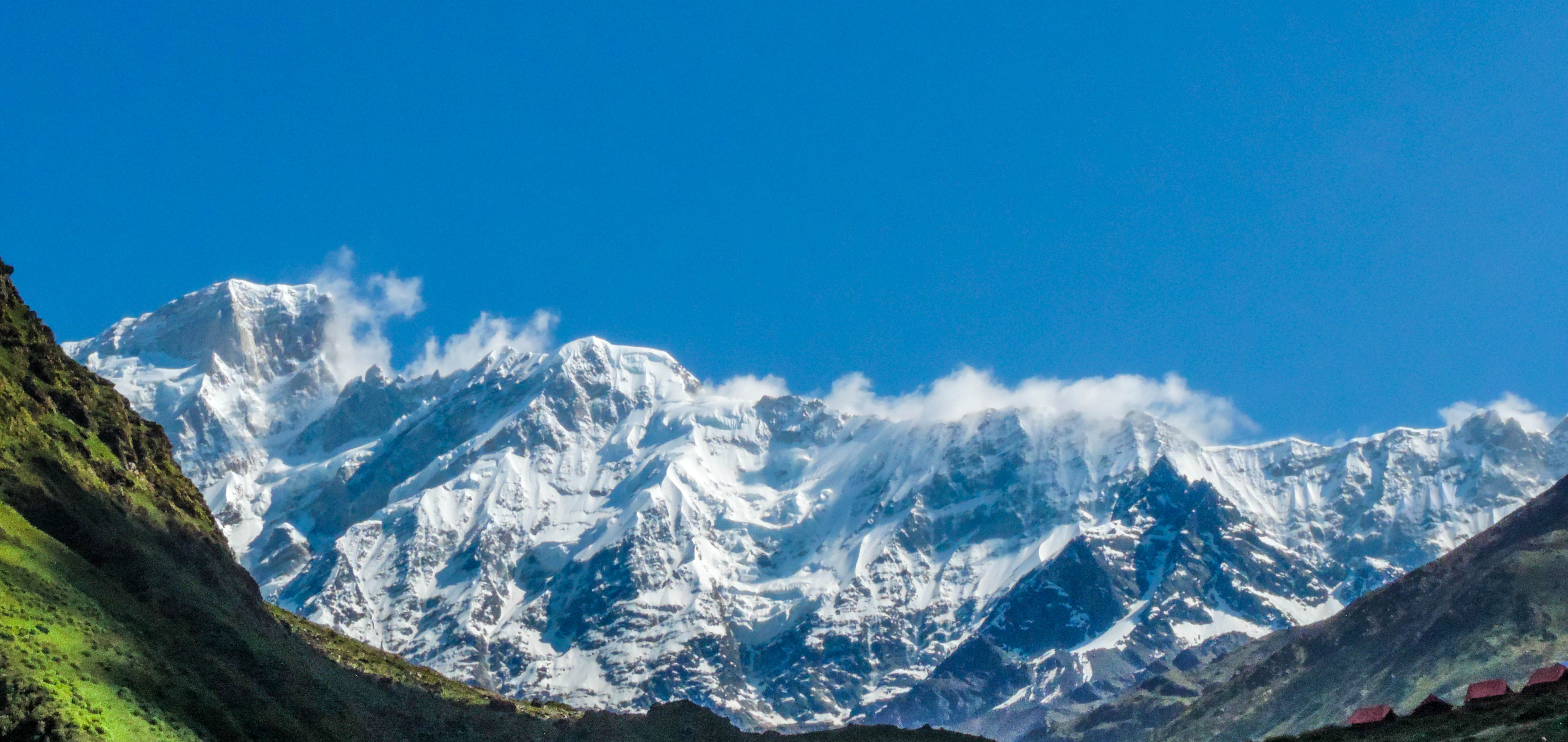 Snow-capped peaks of magnificent Mt.Kedarnath,standing tall at 6940 mts.,taken from Kedarnath base camp